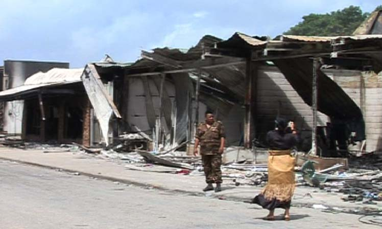 A journalist and a soldier one day after the 2006 riots in Nukuʻalofa, Tonga.